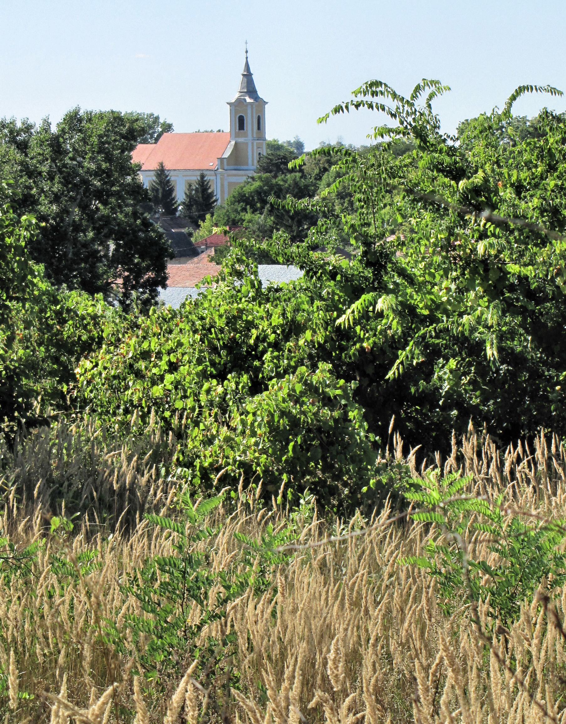 Előszállás, Hungary, view with the church.